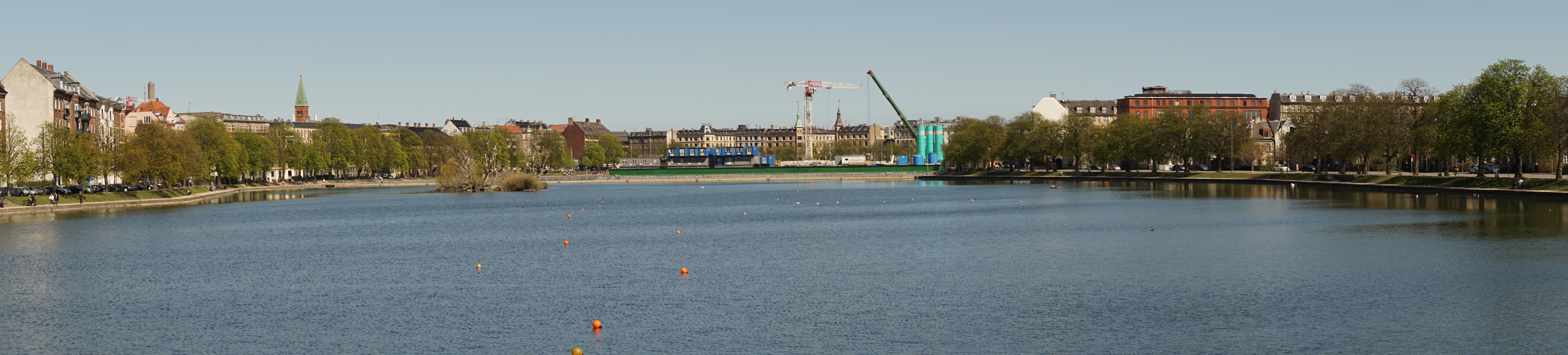 Sortedam Lake in Copenhagen, shot from Fredens Bro looking North-East